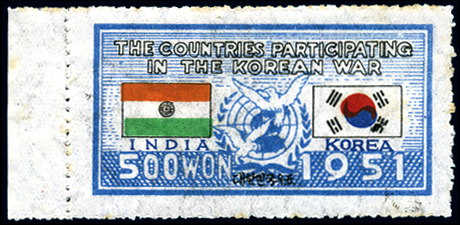 Postage stamp of South Korea, The countries participating in the Korean war series, India, 500 won, 1951, scott#153